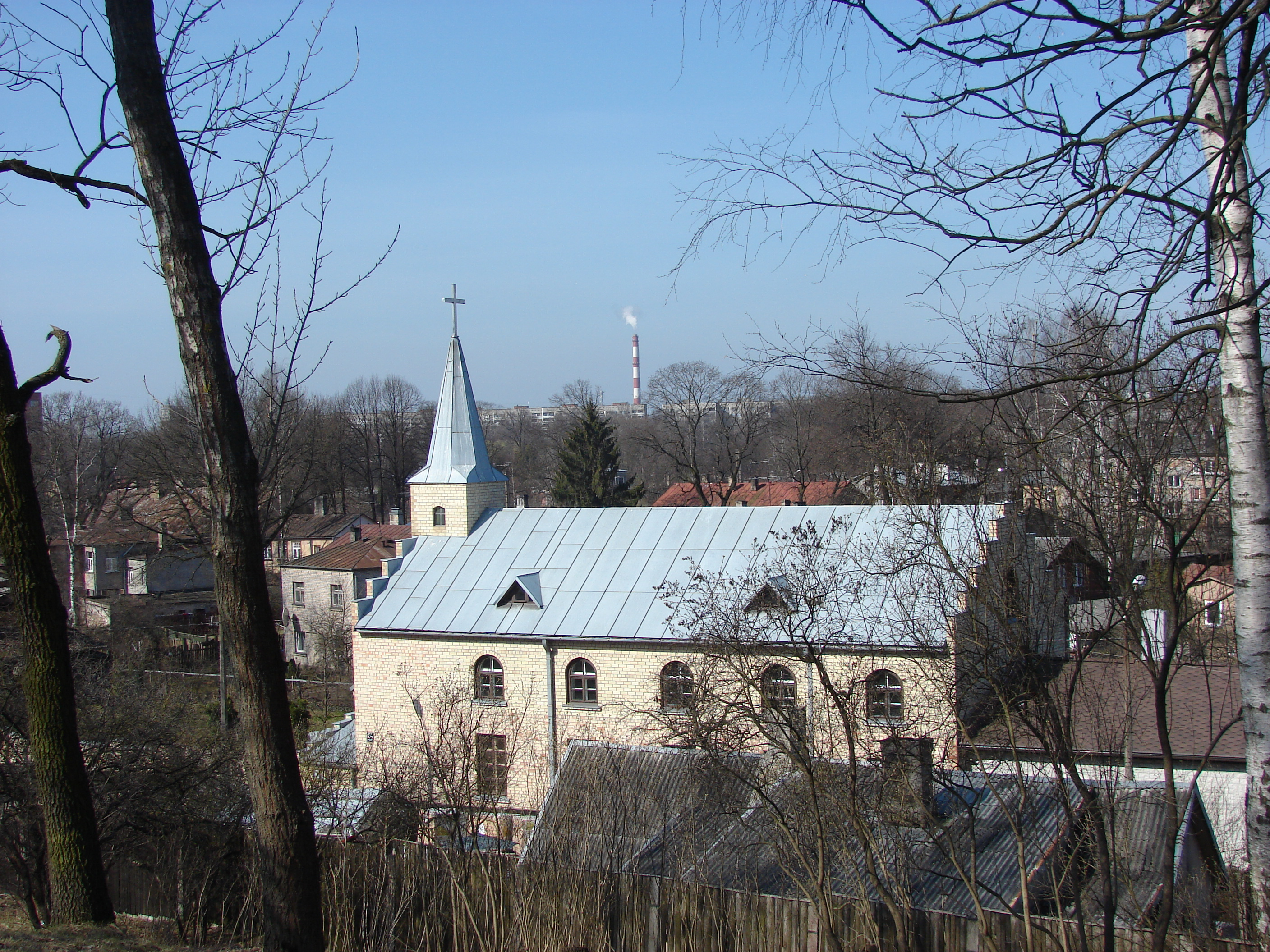 Saint Joseph Roman Catholic Church in RigaLatviešu: Rīgas Svētā Jāzepa Romas katoļu baznīca